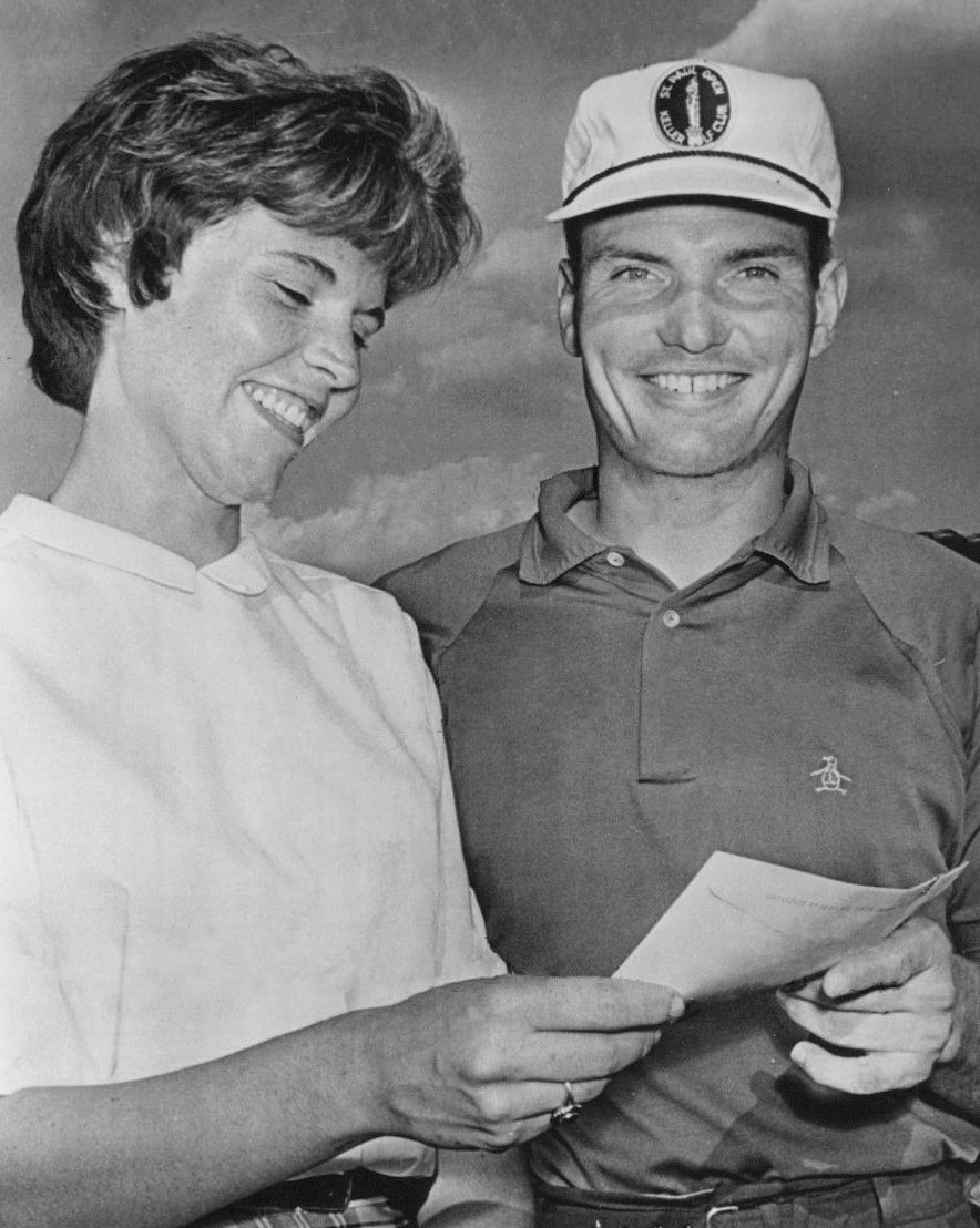 1963 golfer Jack Rule Jr with his wife Loretta - Press Photo